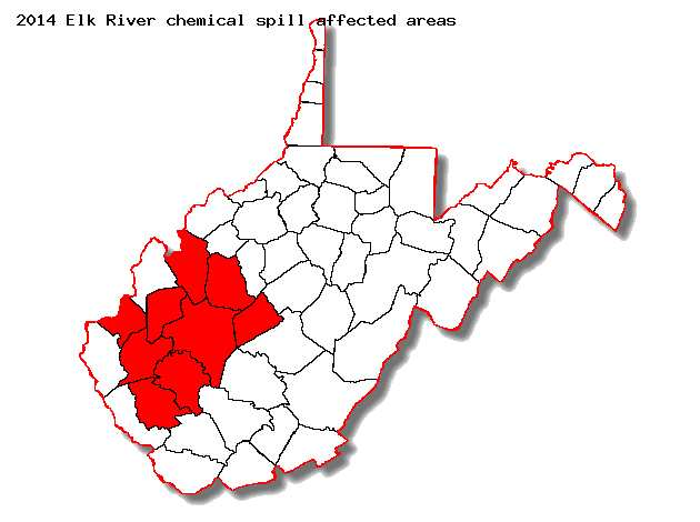 Map of the counties affected by the 2014 Elk River chemical spill — with loss of potable water, in West Virginia. The Elk River chemical spill first received public attention on January 9, 2014 when crude 4-methylcyclohexanemethanol (MCHM) was released from a Freedom Industries facility into the Elk River, a tributary of the Kanawha River, in Charleston, West Virginia. The chemical spill occurred upstream from an American Water intake. Following the spill, up to 300,000 residents within nine counties in the Charleston, West Virginia metropolitan area were without access to potable water. Crude MCHM is a chemical foam used to wash coal, and remove impurities that contribute to pollution during combustion. The areas affected were: Boone, Clay, Jackson, Kanawha, Lincoln, Logan, Putnam, and Roane Counties; and the Culloden area of Cabell County.